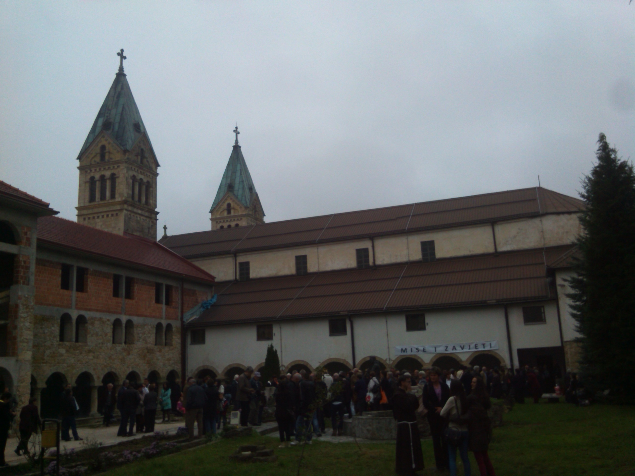 Church and monastery in Guča Gora